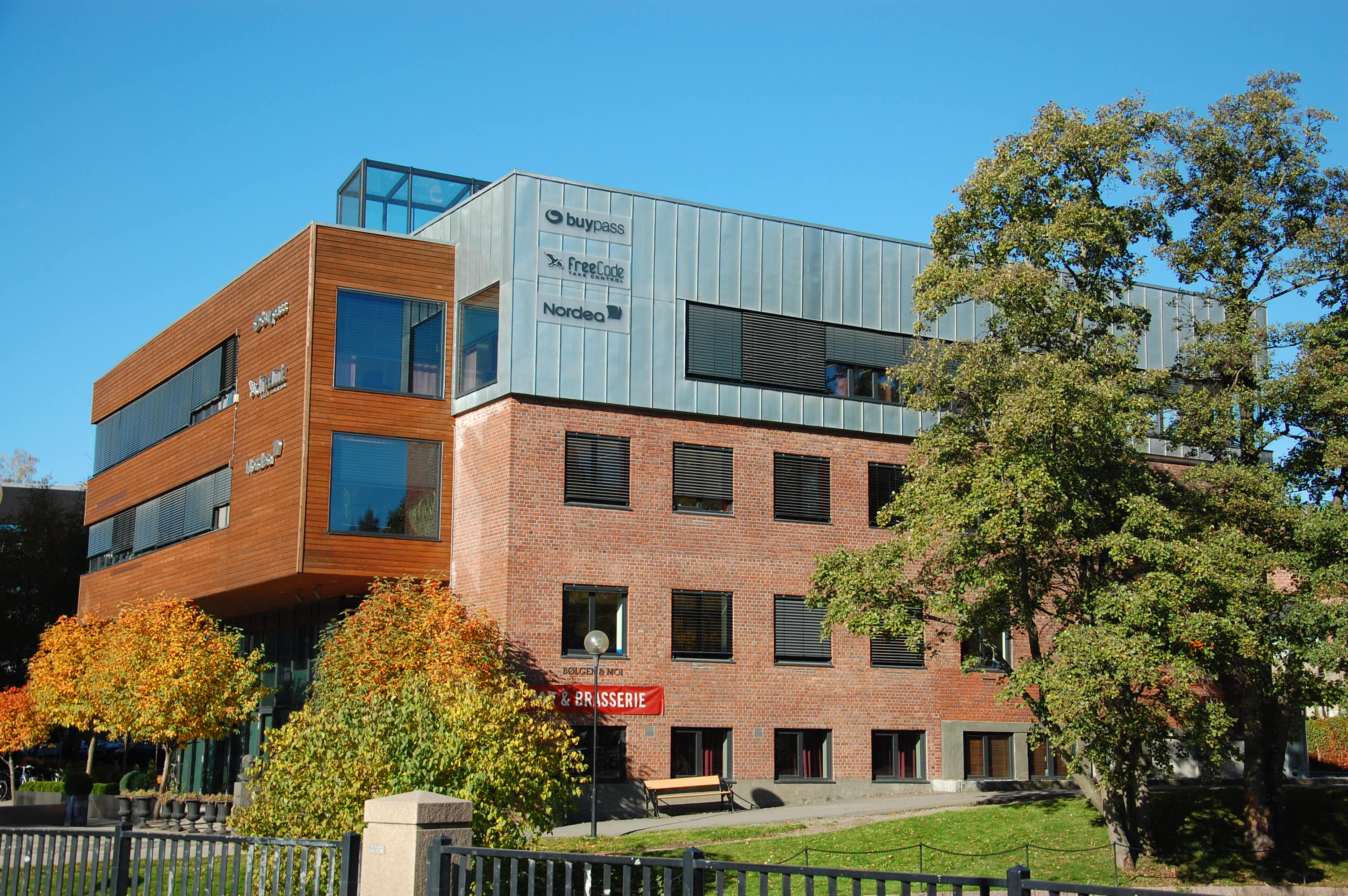 Nydalsveien 30 A, Nydalen, in Oslo. Officebuilding with the Bypass headquarter, offices for FreeCode AS and Nordea. On first floor the restaurant Bølgen & Moi in Nydalen.